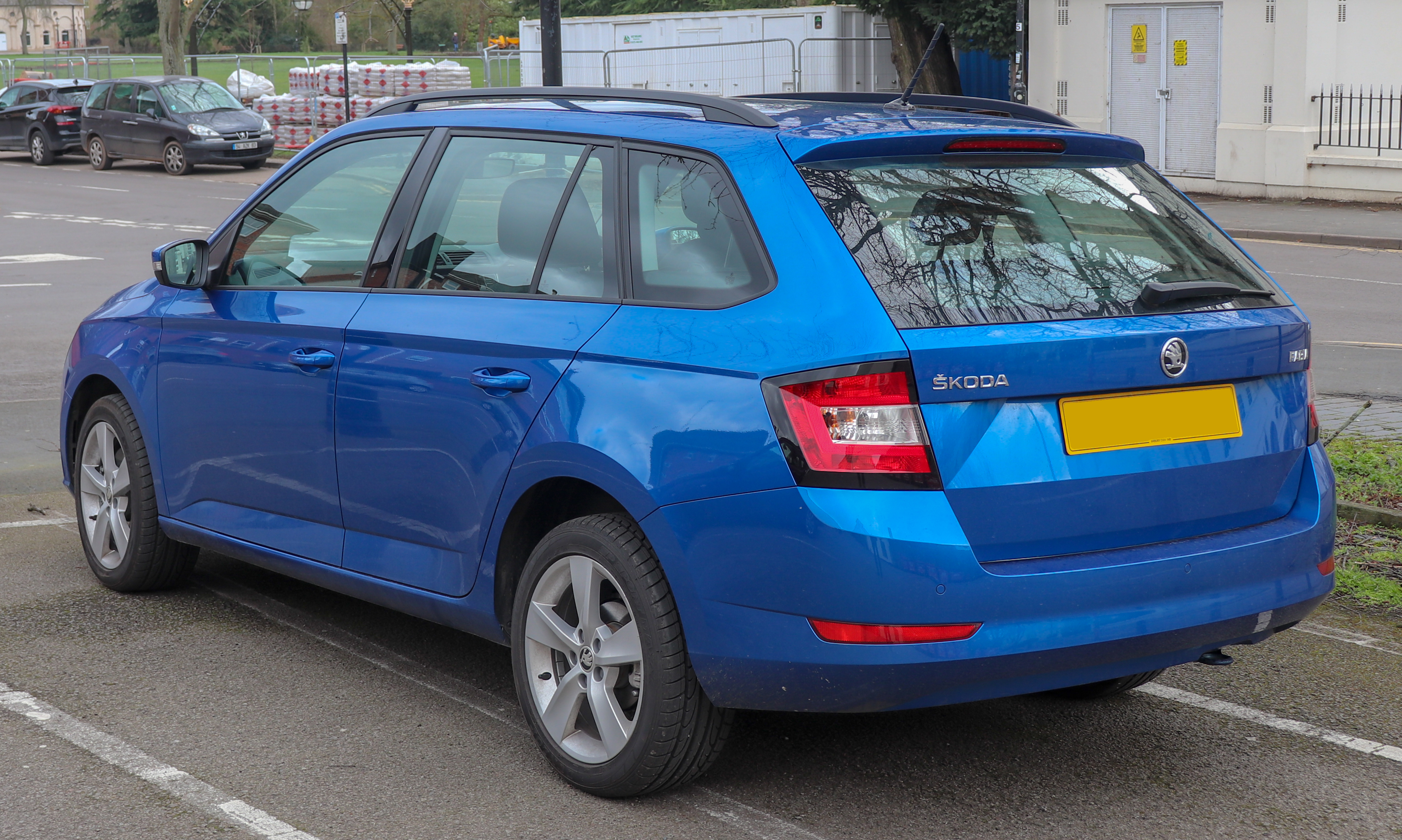 2018 Skoda Fabia SE L TSi S-A Estate facelift 1.0 Rear Taken in Leamington Spa